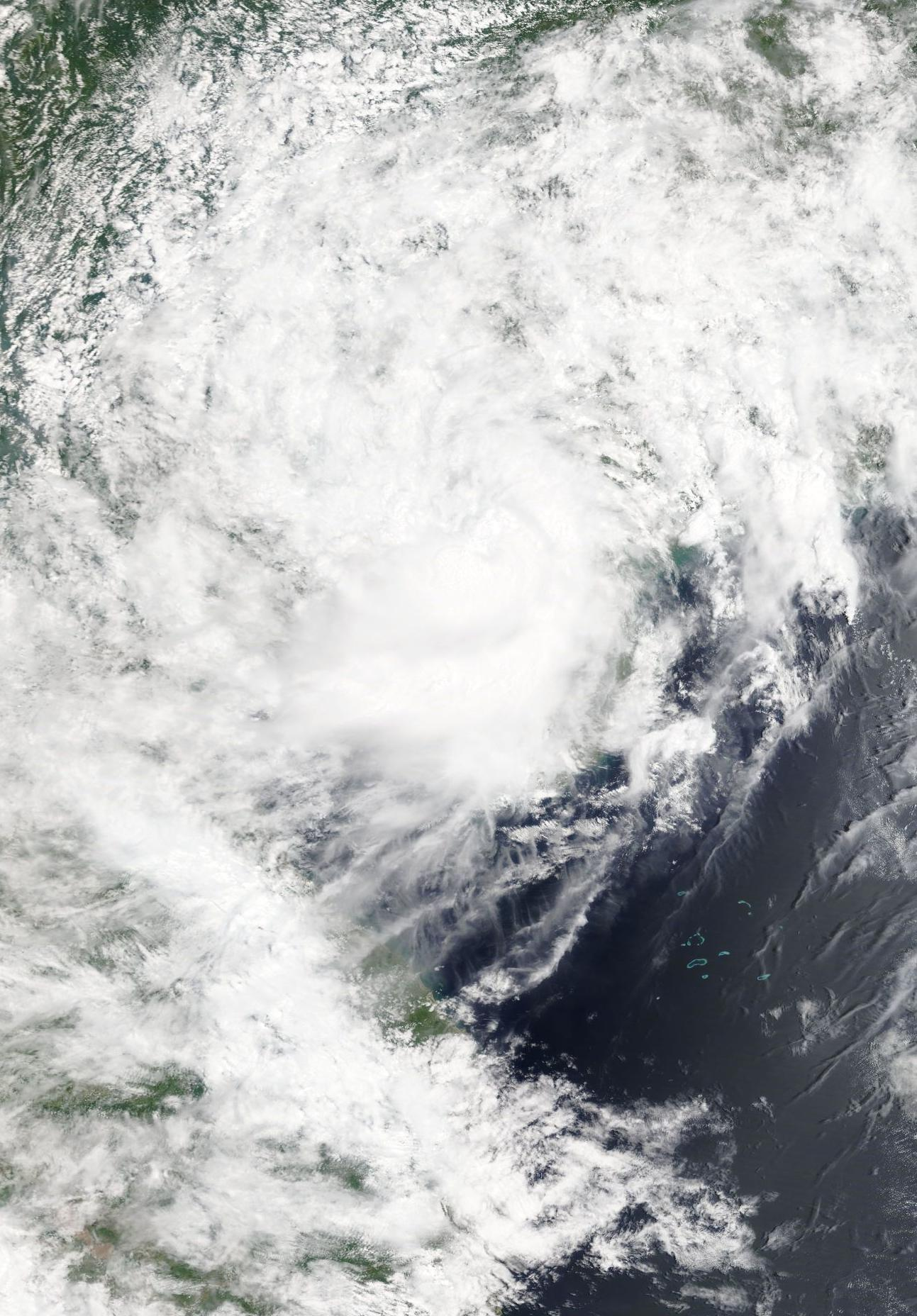 Image of Wipha in Southern China on 2 August 2019